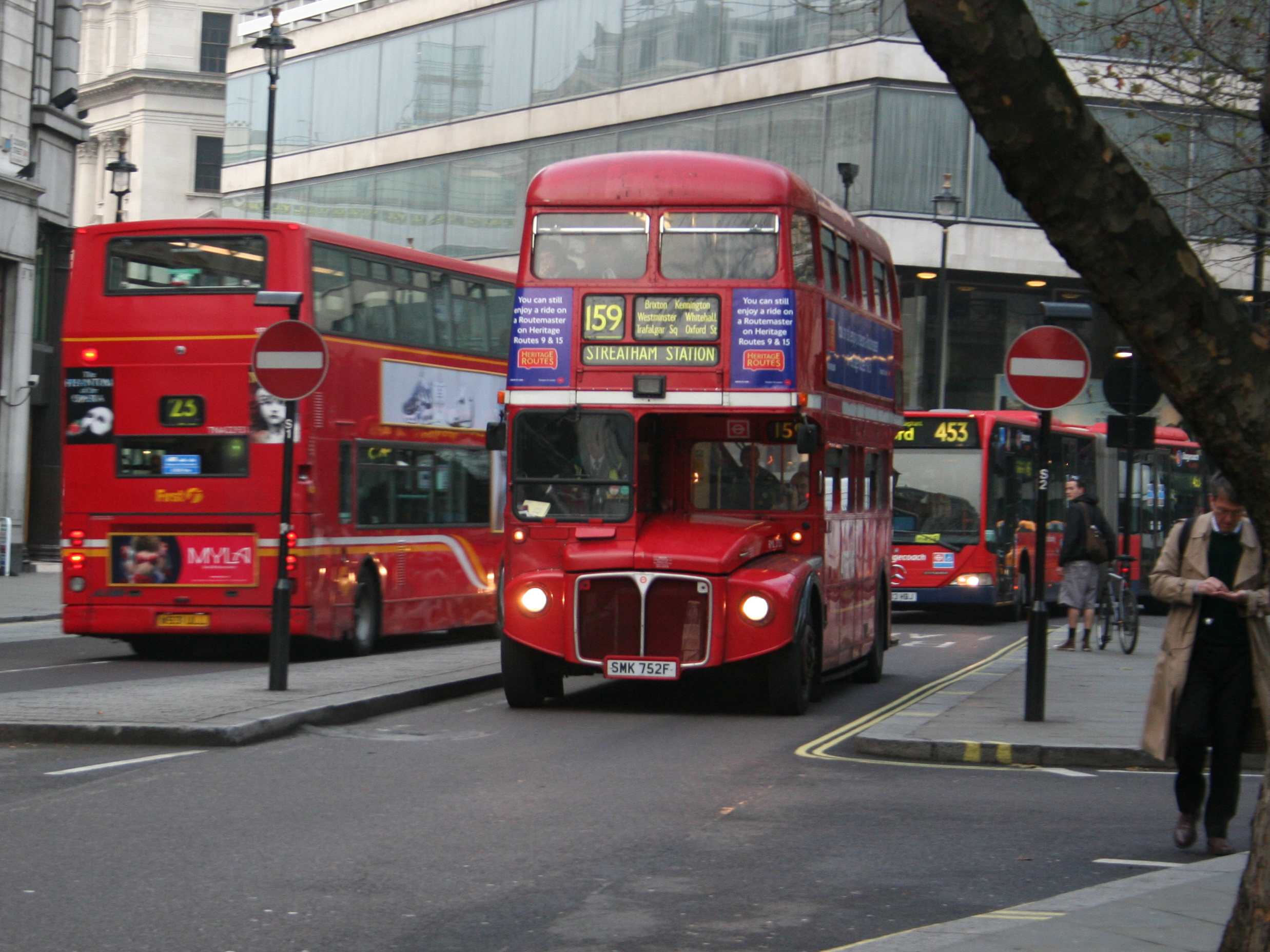 Arriva London South Routemaster bus RML2752 (reg. SMK 752F), operating London Buses route 159 on the last day of non-heritage Routemaster operation in London. It's pictured here heading east along Cockspur Street in Westminster, en route to Streatham Station. The glass skyscraper of New Zealand House is in the background. Around it are more modern buses, a First London double-decker to the left operating route 23, and a Stagecoach London articulated bus operating route 453 behind it.